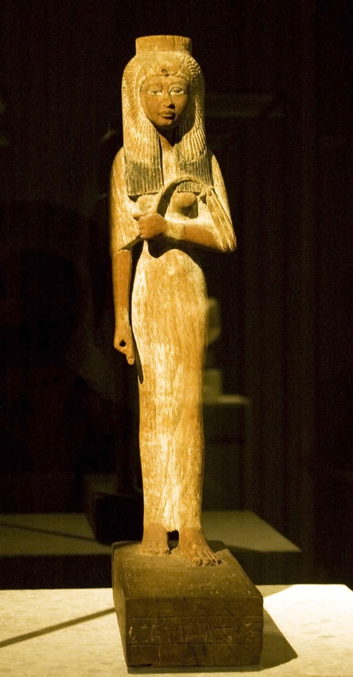 Ahmose-Nofretari, mother of king Amenhotep I, New Kingdom, Dynasty XIX, c. 1200 B.C., posthumous sculpture, wood; Thebes